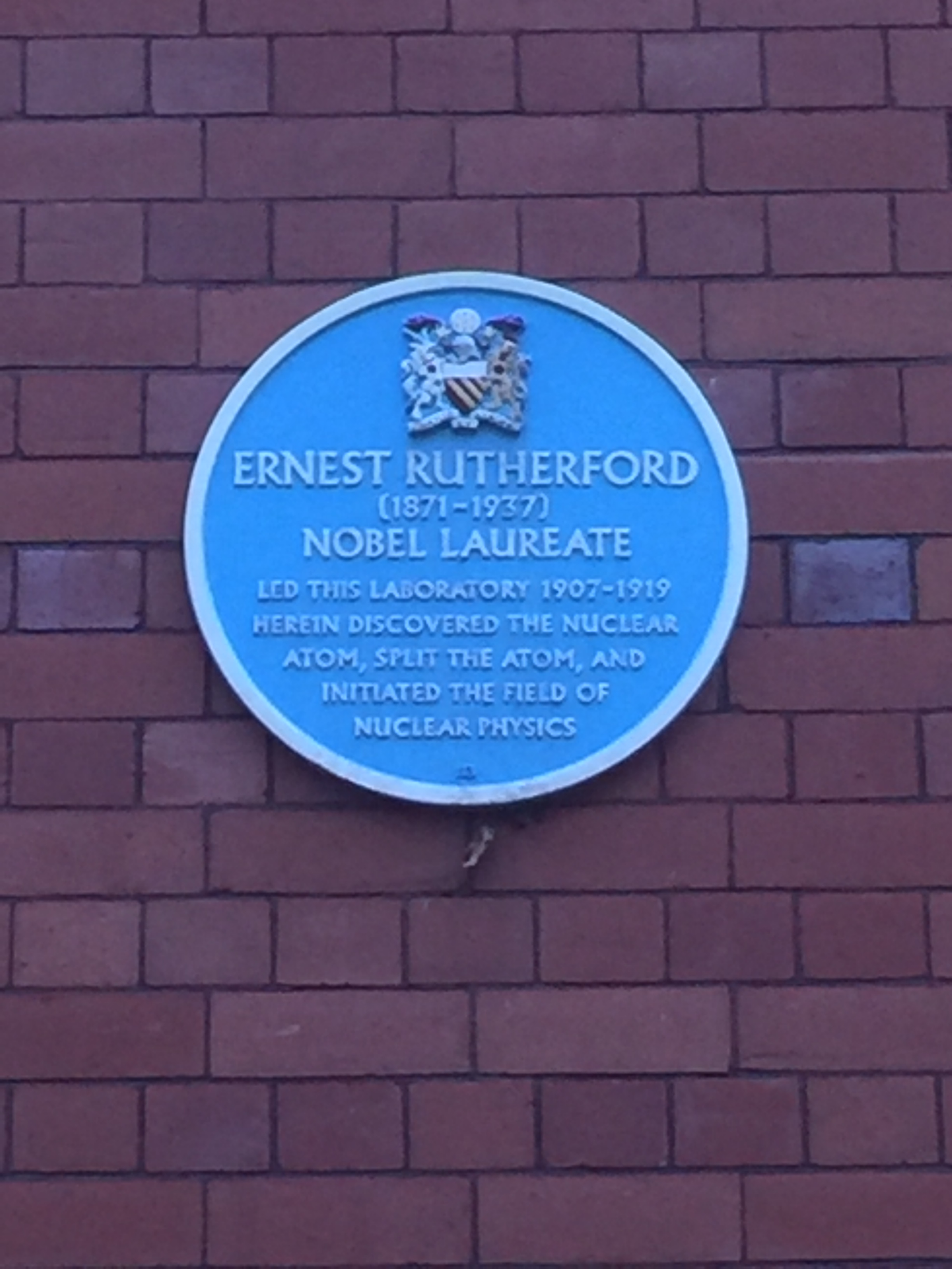 Sir Ernest Rutherford Commemorative plaque at his laboratory at The University of Manchester